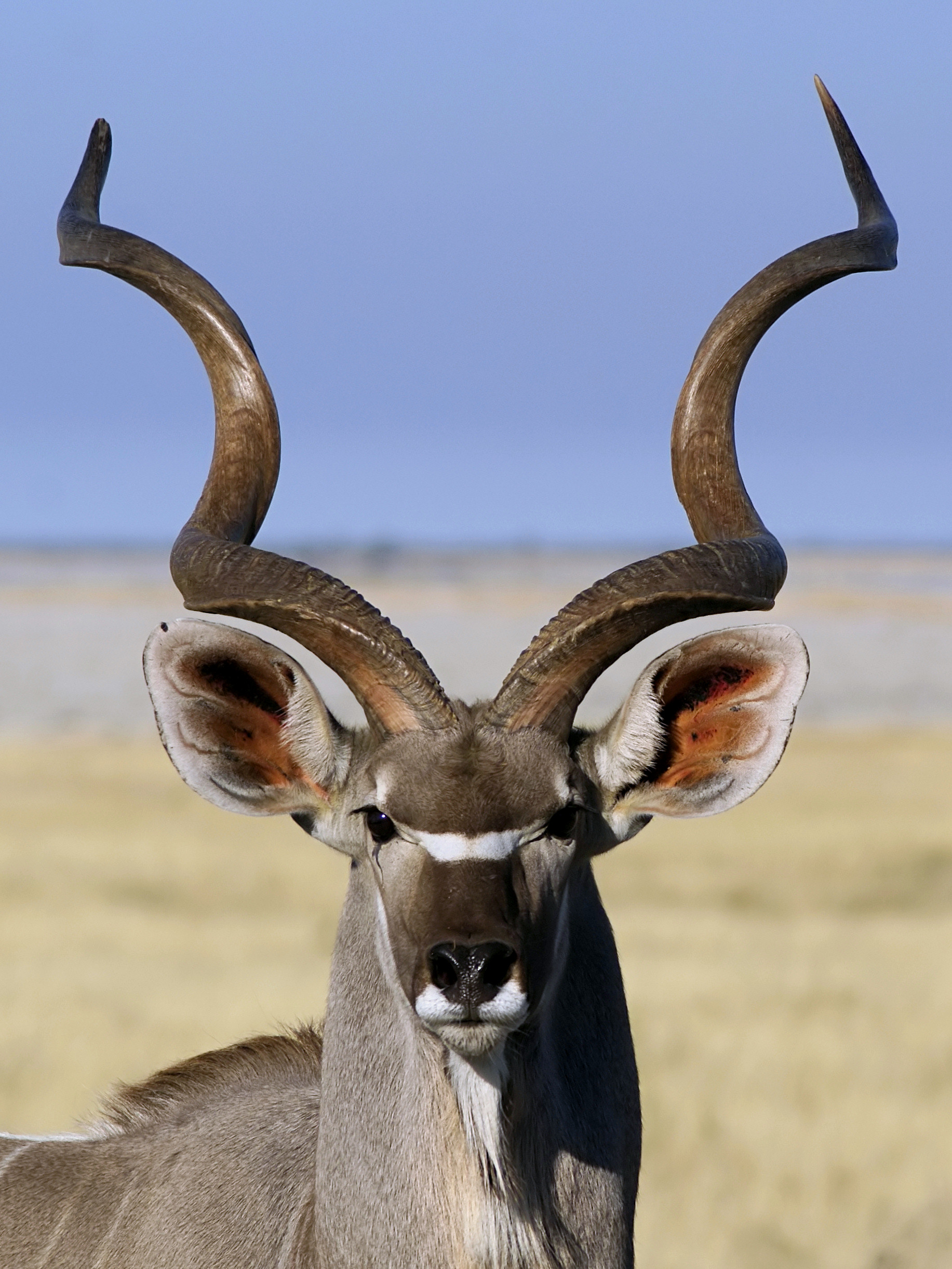 Portrait of a Greater Kudu bull near Groot Okevi, Etosha National Park, Namibia